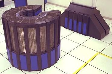 Cray 2, serial number 2013 with Static RAM [SRAM] and water fall style heat exchanger/reservoir